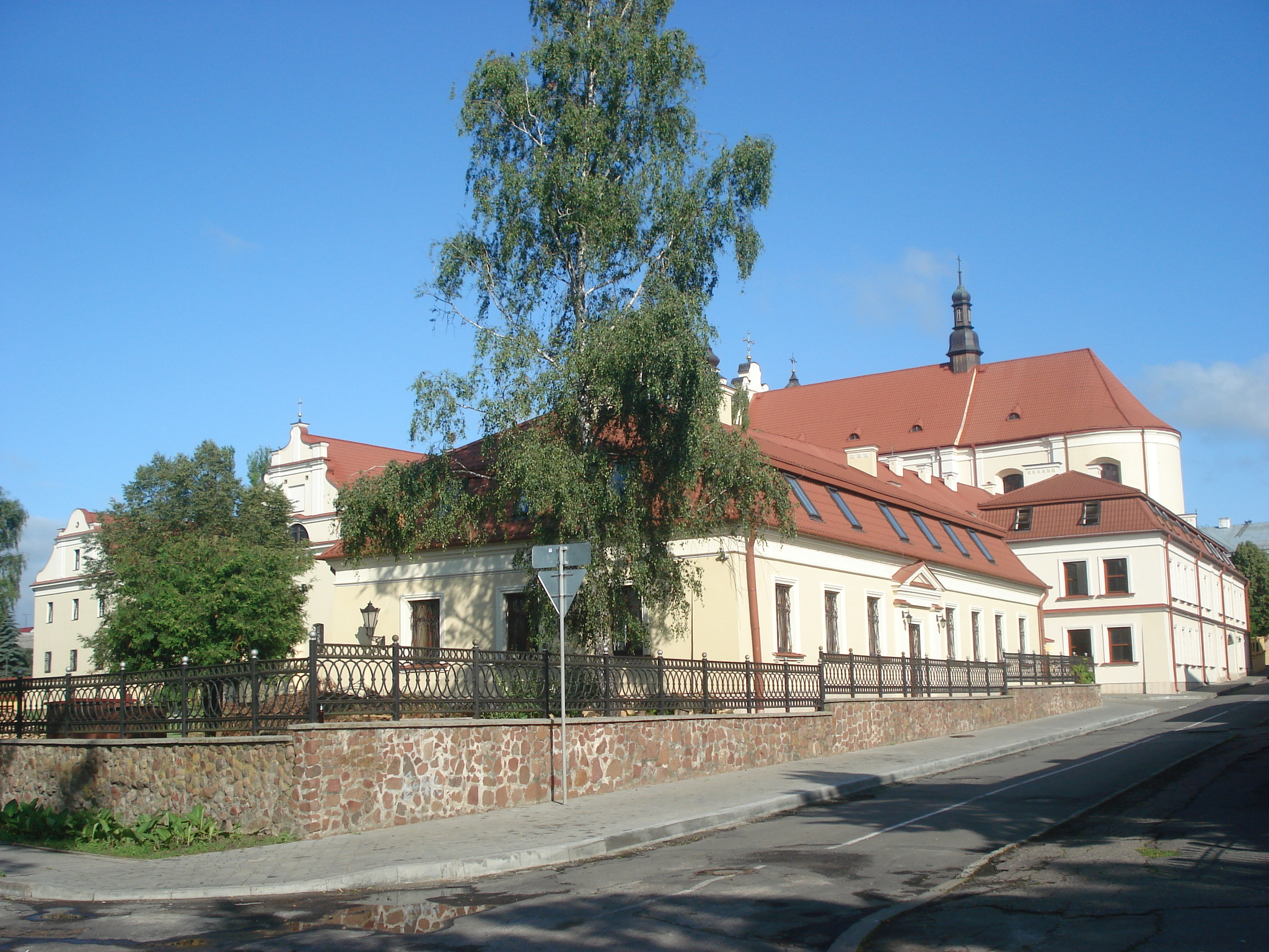 Monastery of Franciscan, Pinsk